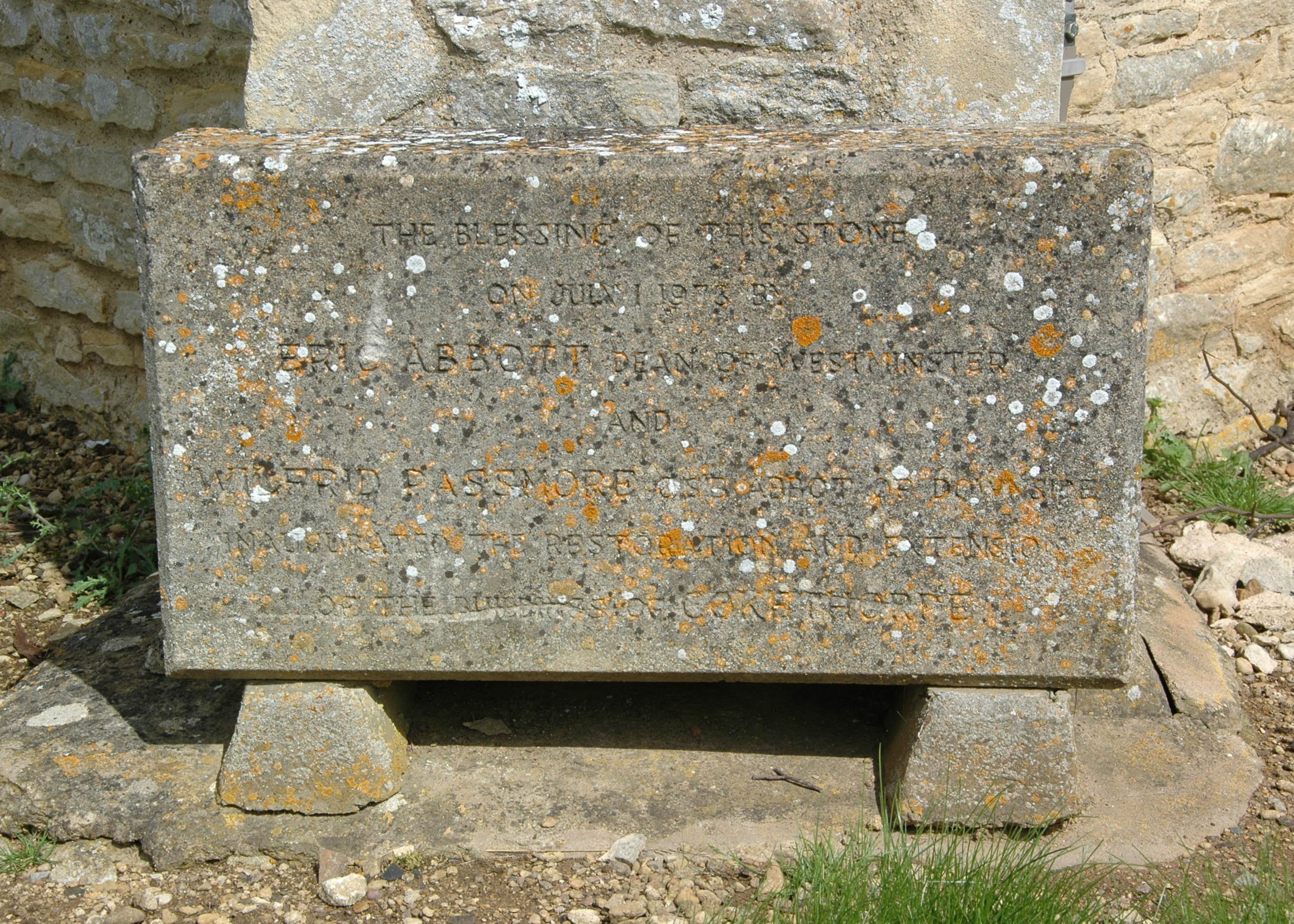 Cokethorpe school chapel, formerly St Mary's parish church, Hardwick, West Oxfordshire: dedication stone